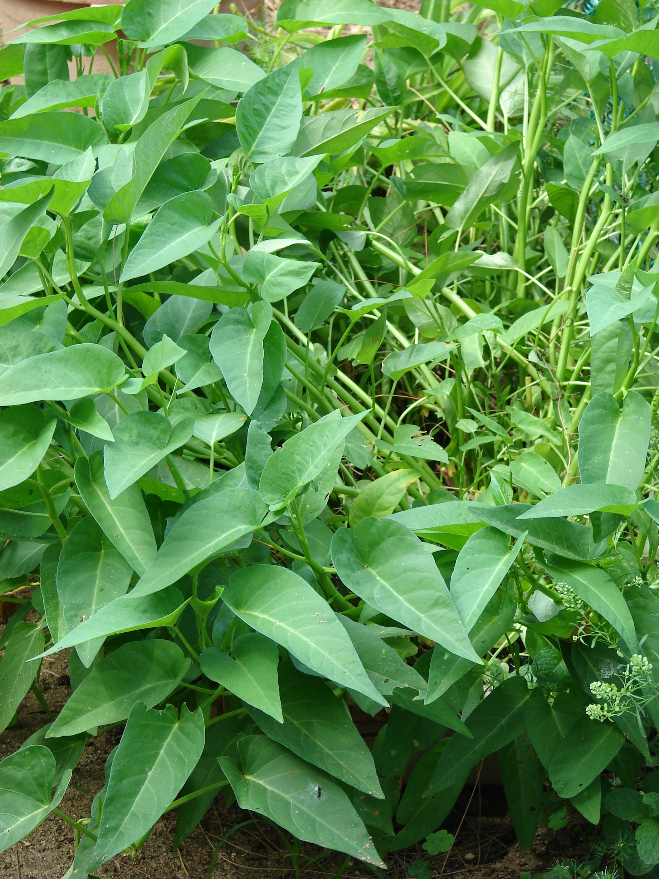 Ipomoea aquatica (habit in garden). Location: Midway Atoll, 4208 Commodore Ave Sand Island